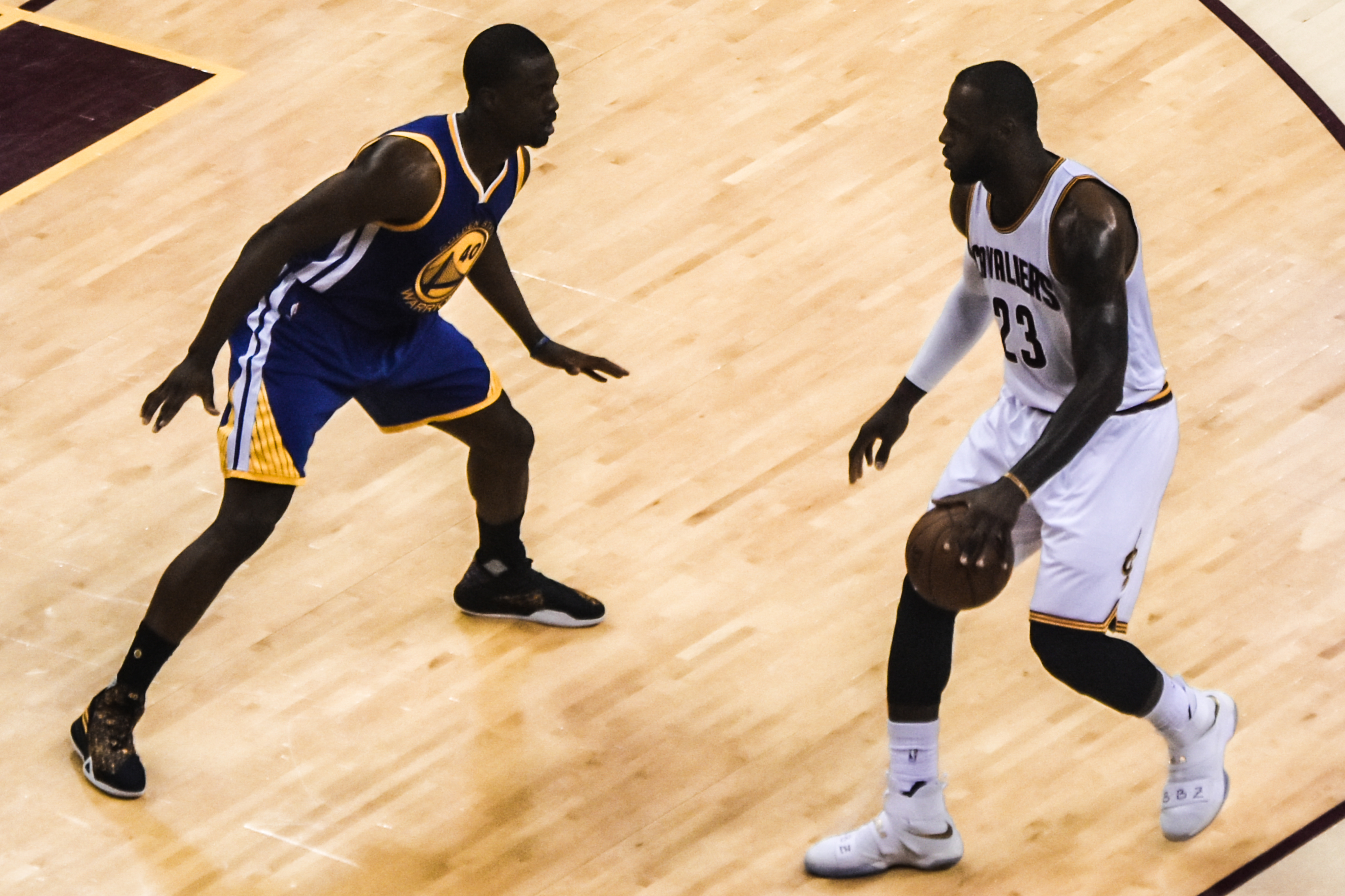 LeBron against harrison barnes